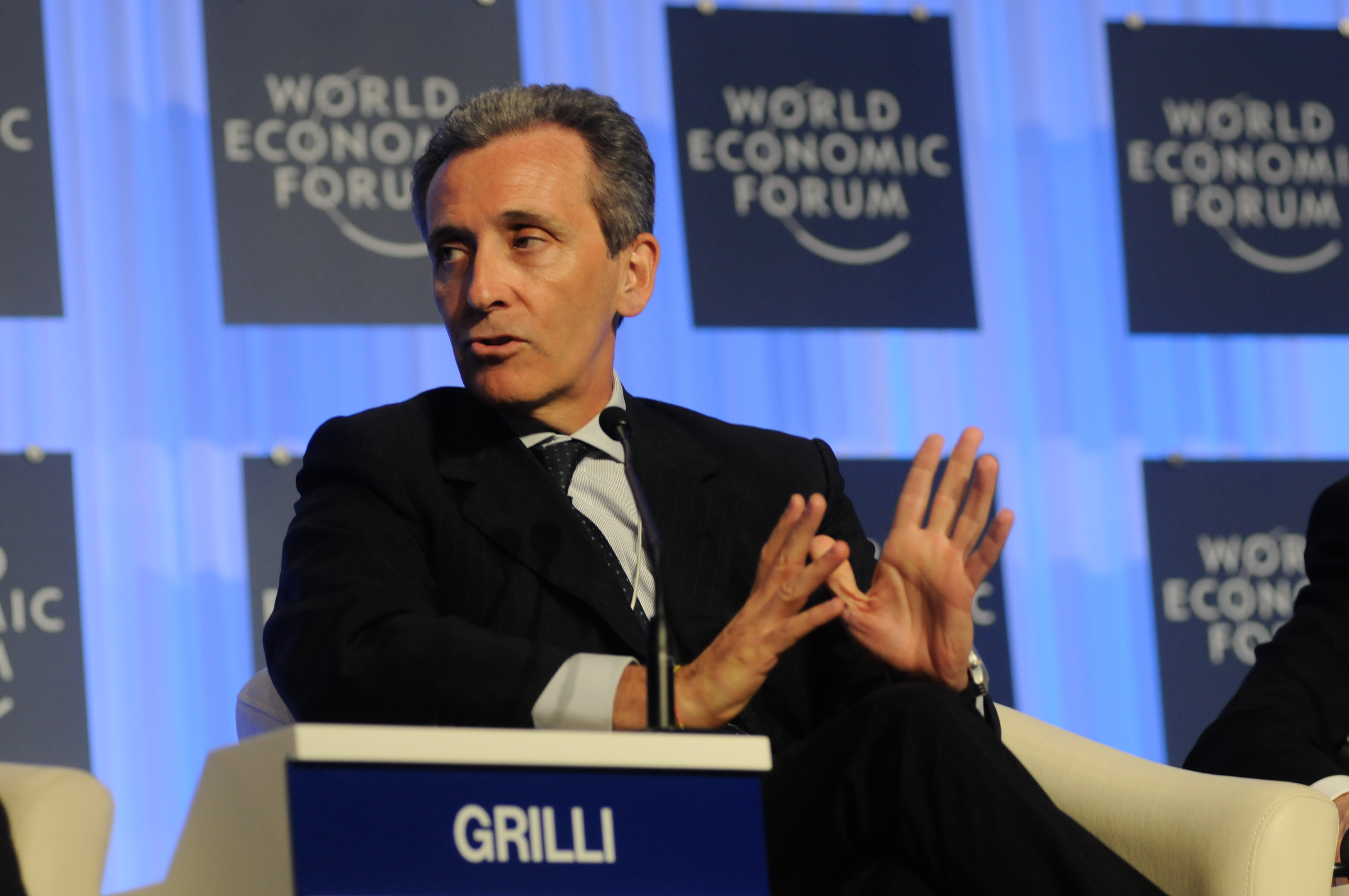 ISTANBUL, TURKEY, 5 June 2012 - Vittorio Grilli, Vice-Minister of Finance of Italy, speaks at the World Economic Forum on the Middle East, North Africa and Eurasia in Istanbul, 4-6 June 2012. Copyright World Economic Forum ( by Norbert Schiller